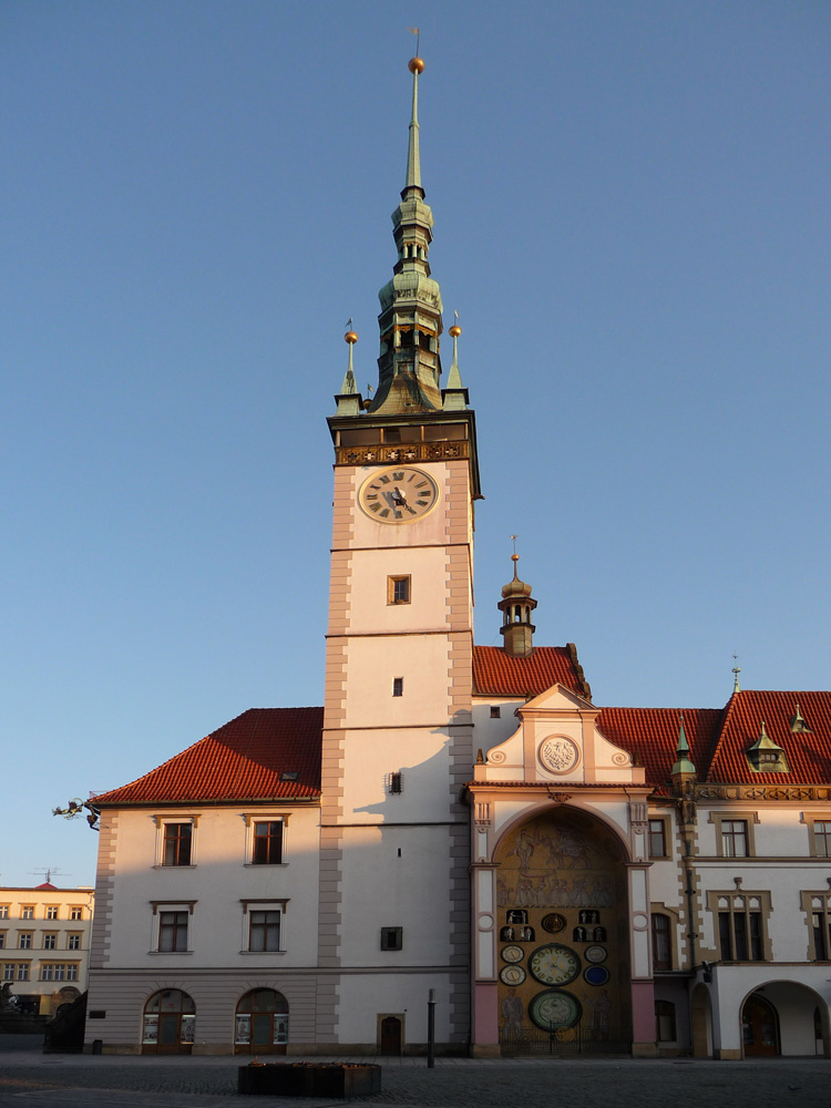 Town hall and astronomical clock, Olomouc, Czech Republic